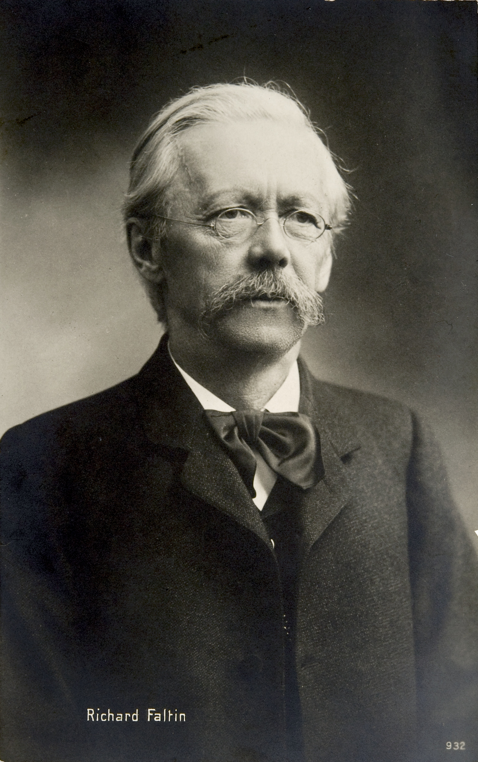 Photograph of the German-Finnish composer and organist Friedrich Richard Faltin (1835–1918).